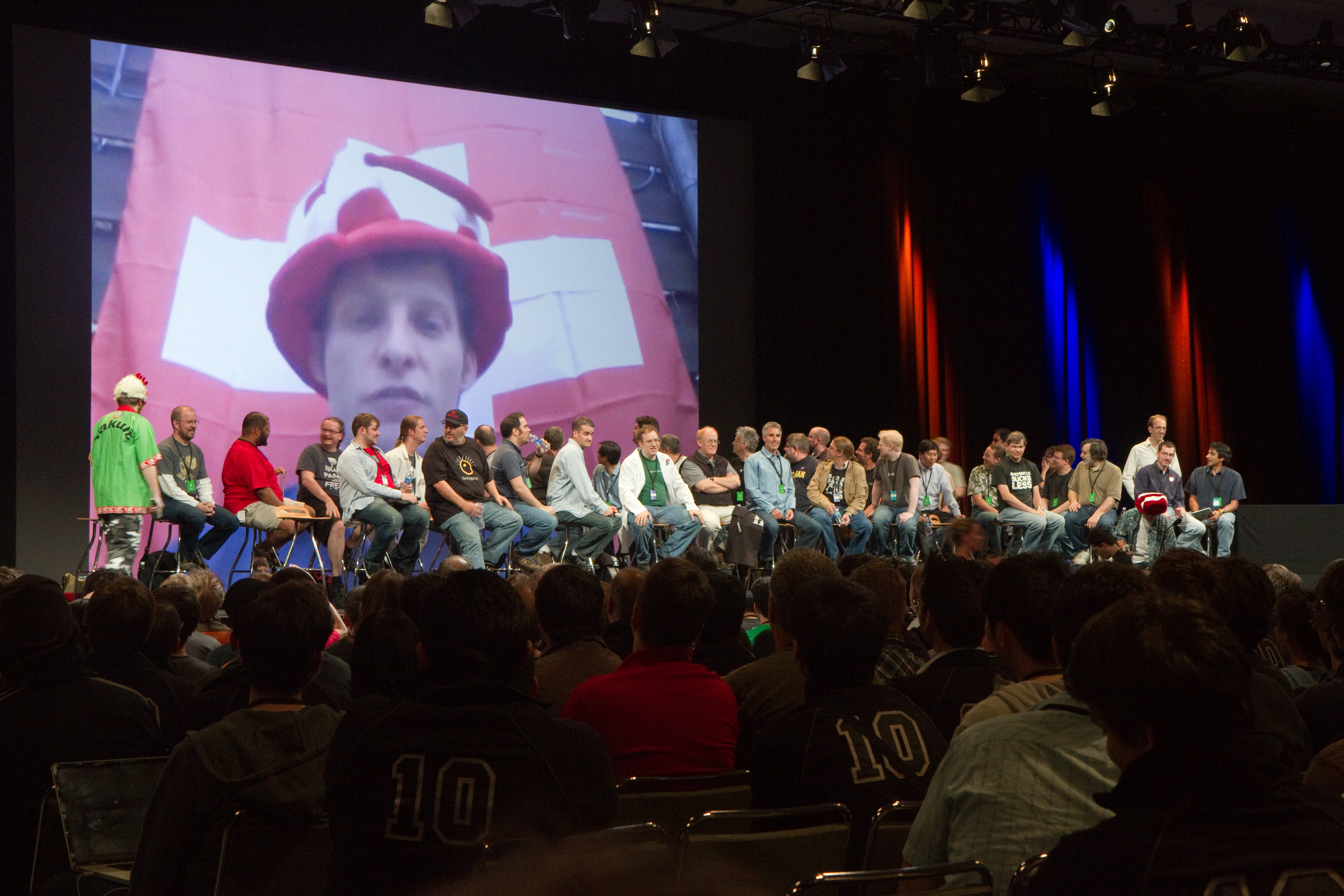 All the Experts of 2010 WWDC Stump The Experts. In the Background is the "Crazy Swiss Guy" who acted as a referee before.